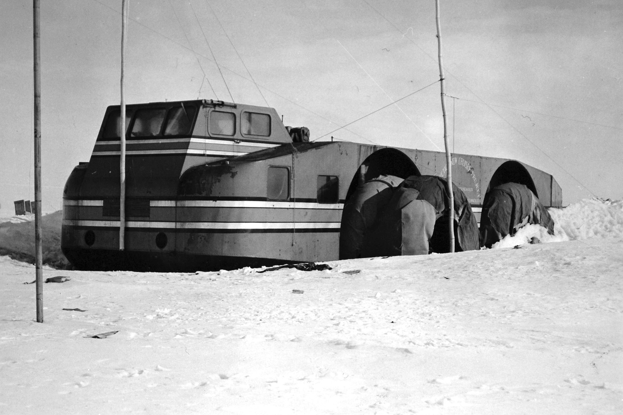 The Antarctic Snow Cruiser, as it was abandoned (December 22, 1940)